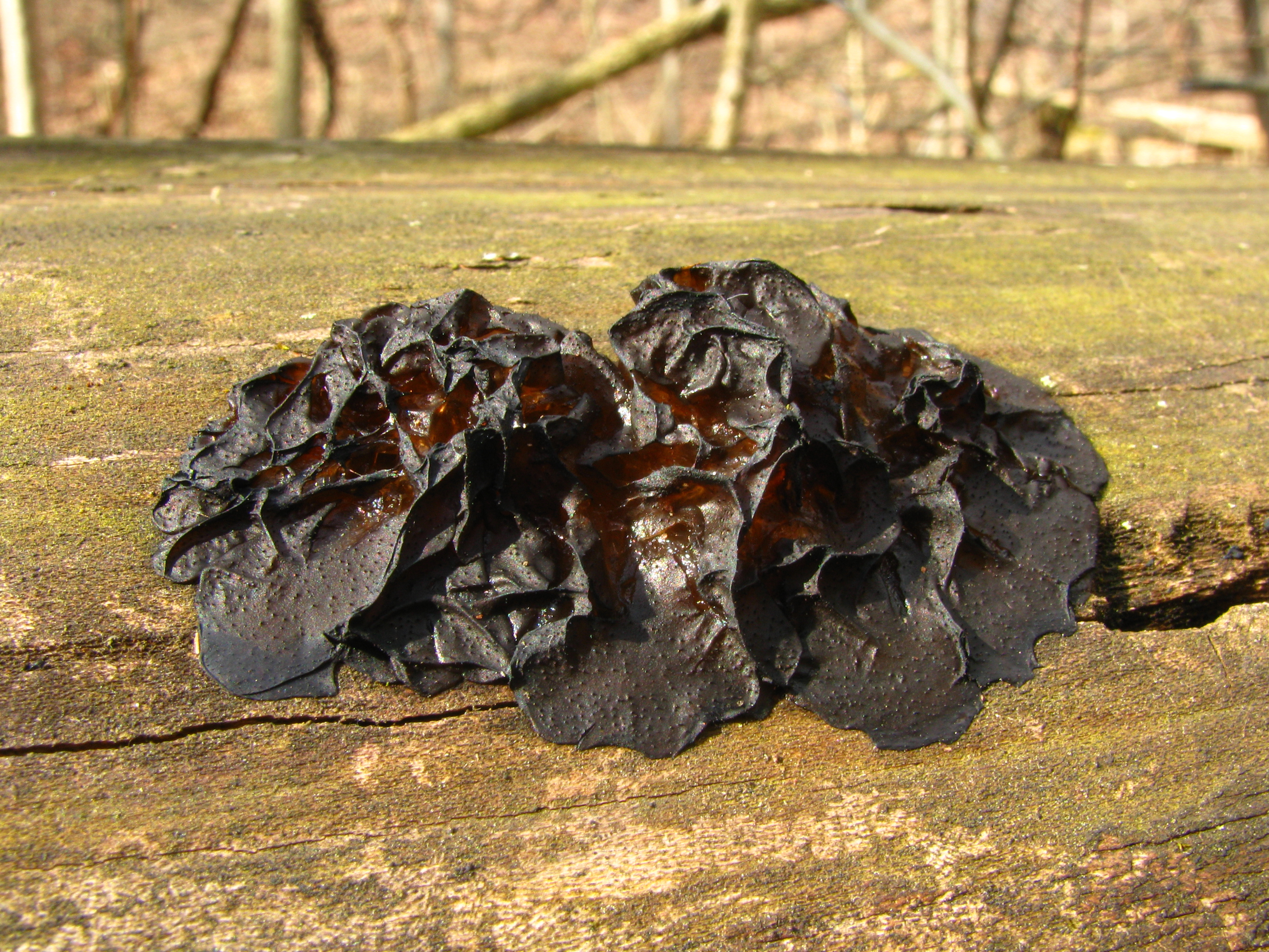 Exidia glandulosa (Bull.) Fr. Image location: Dysart Woods, Ohio, USA Recognized by sight For more information about this, see the observation page at Mushroom Observer.